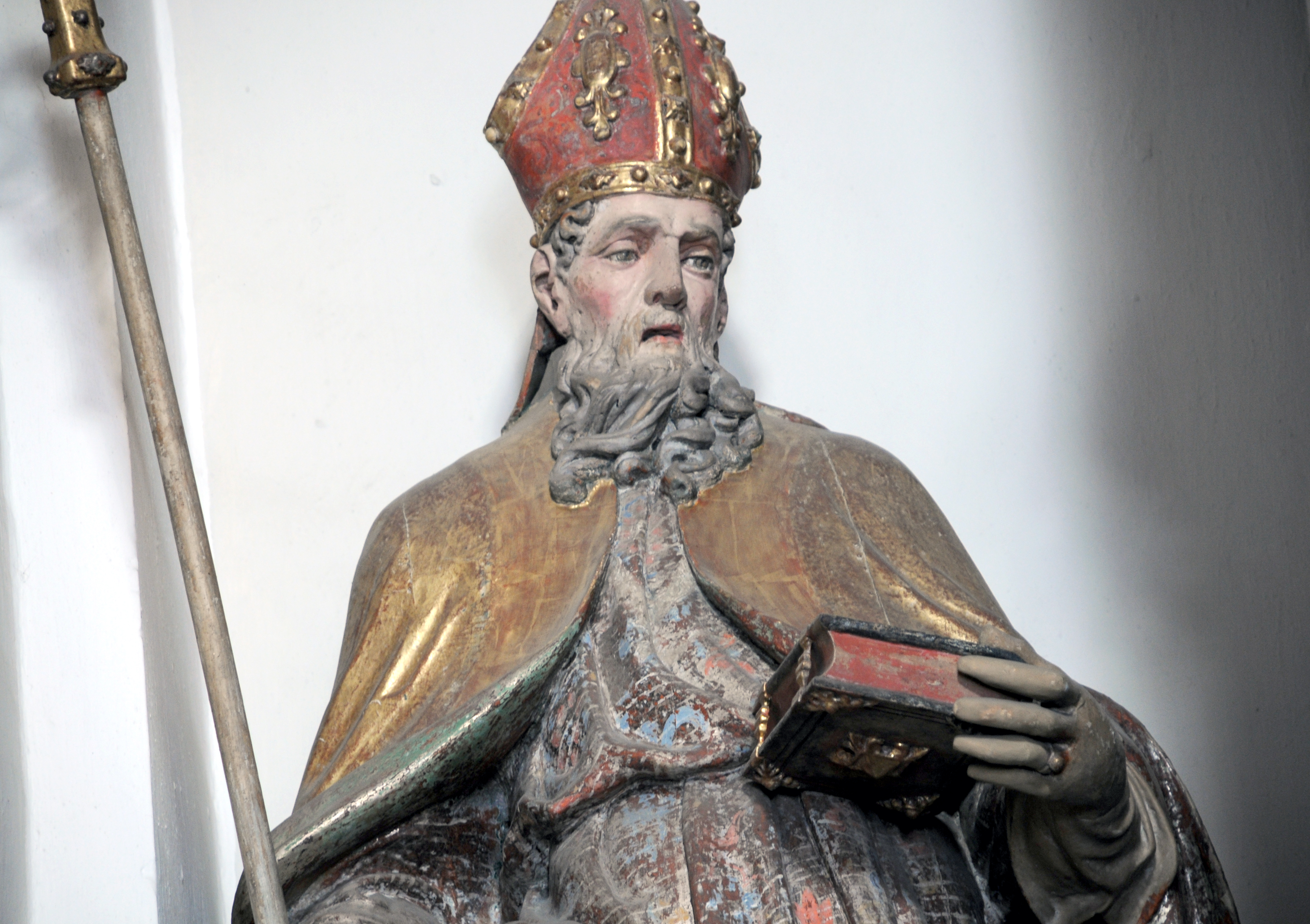 Bishop Saint Rupert in the S. Anthony church of St. Ulrich in Gröden - Ortisei Val Gardena - Sculptor Johann Vinazer 1684